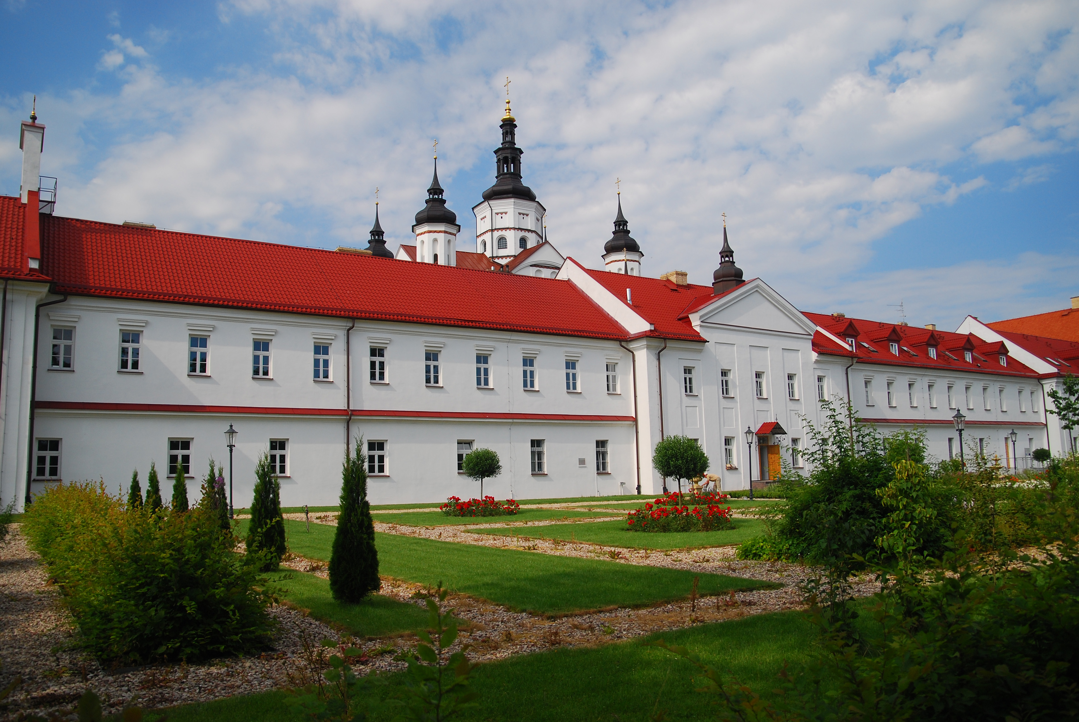 Ogród renesansowy przy klasztorze, Supraśl This photo from Podlaskie Voievodeship was taken during Polish Wikiexpedition 2009 set up by Wikimedia Polska Association. The making of this document was supported by Wikimedia Polska.